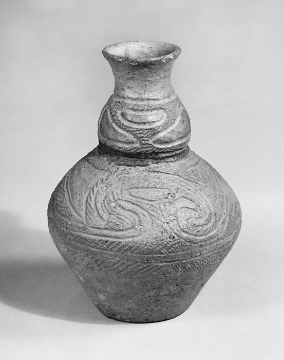 Japan; Jar; Ceramics